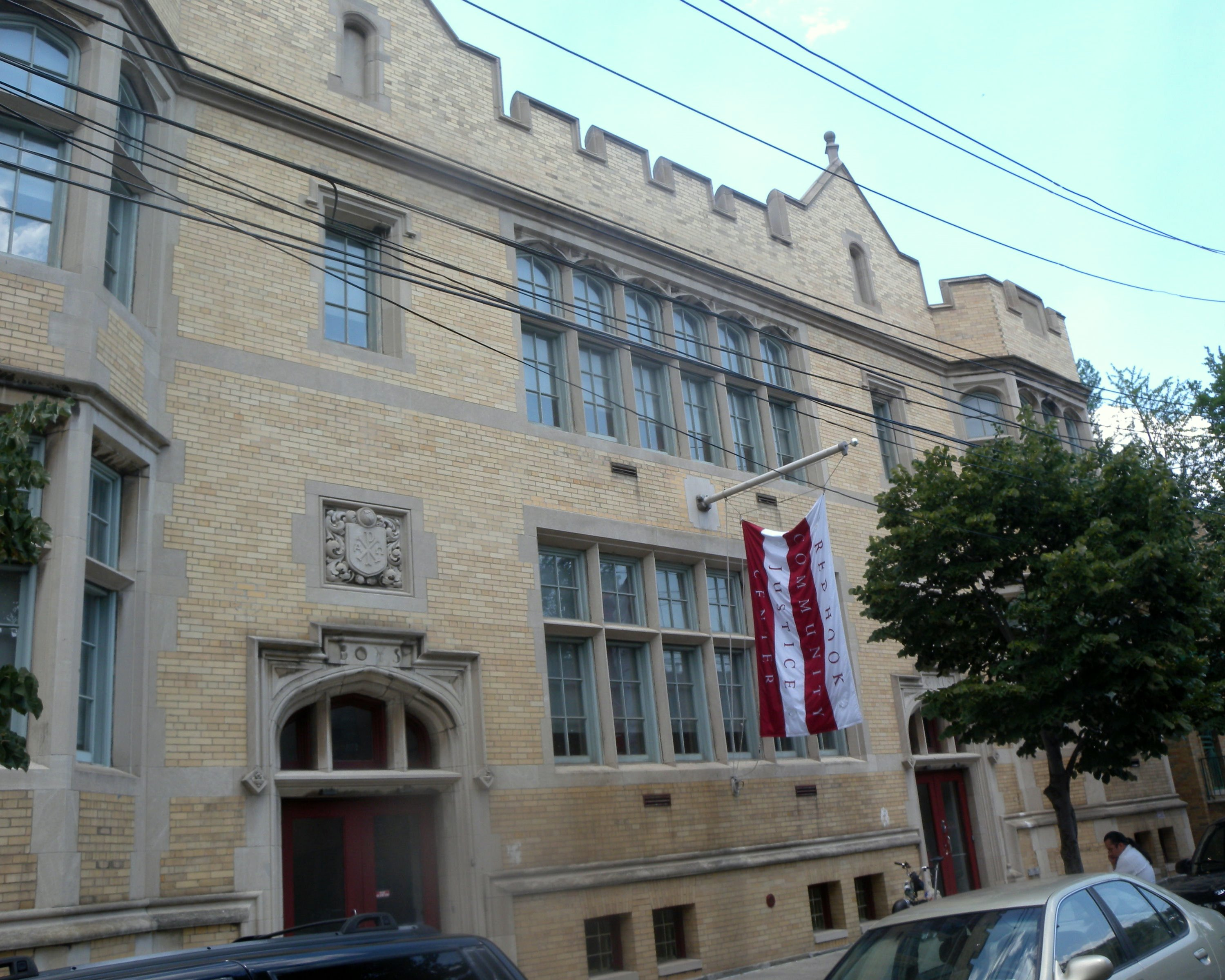 Looking east across Visitation Place at Community Justice Center on a mostly sunny midday.